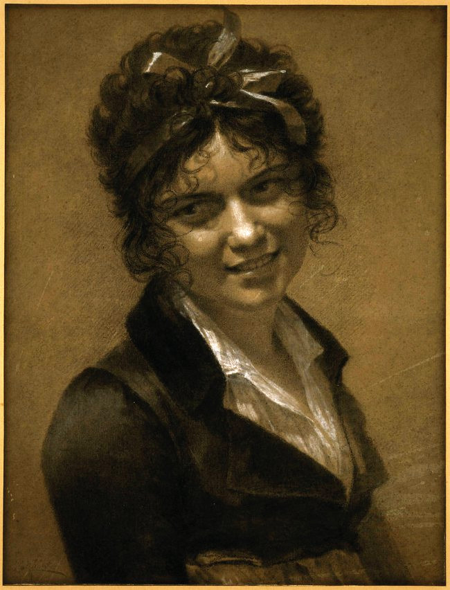 Portrait of Marie Françoise Constance Mayer La Martinière (1775-1821)